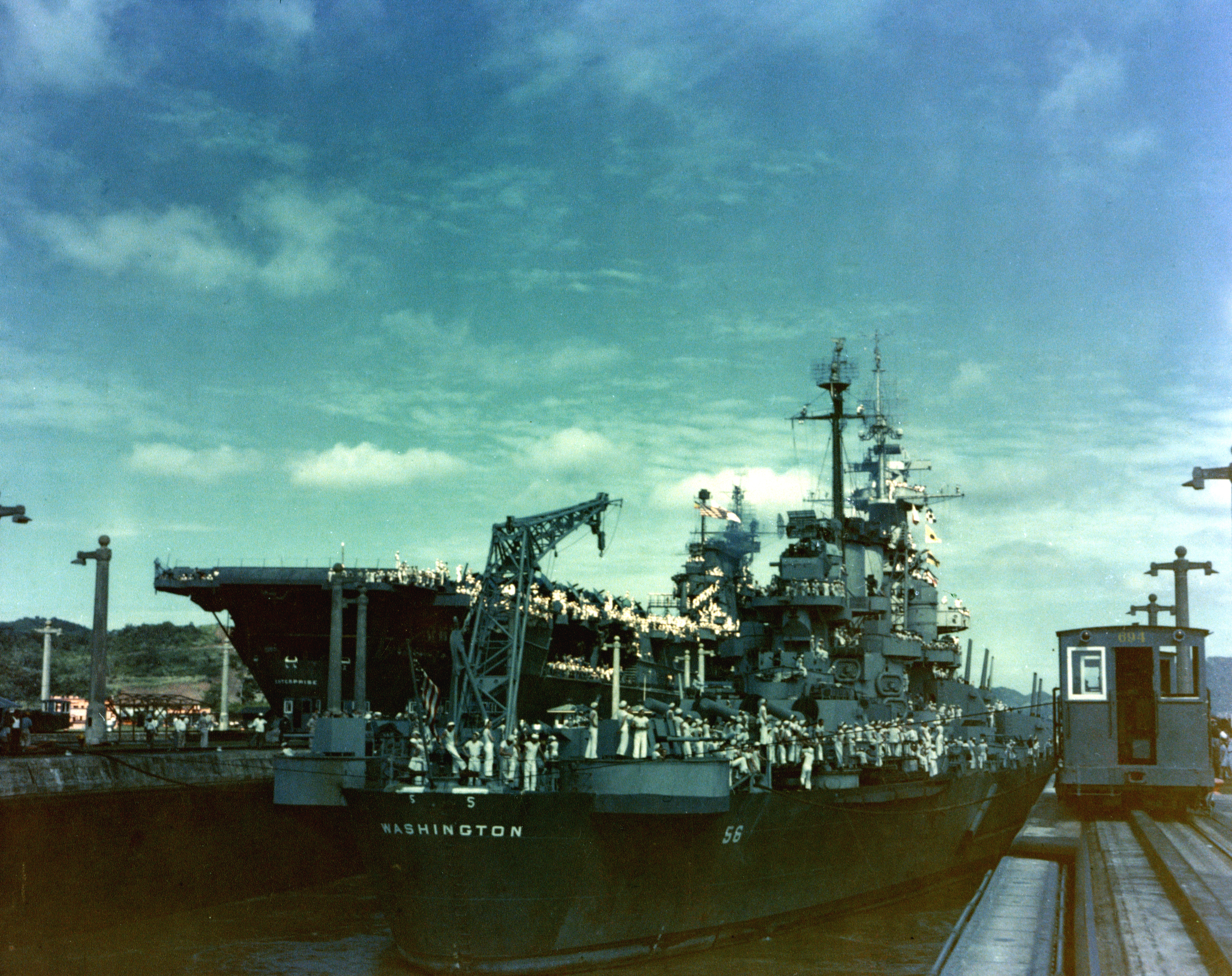 The U.S. Navy battleship USS Washington (BB-56) and the aircraft carrier USS Enterprise (CV-6) transiting the Panama Canal from the Pacific to the Atlantic, early in October 1945. They were then en route to New York to participate in Navy Day celebrations.